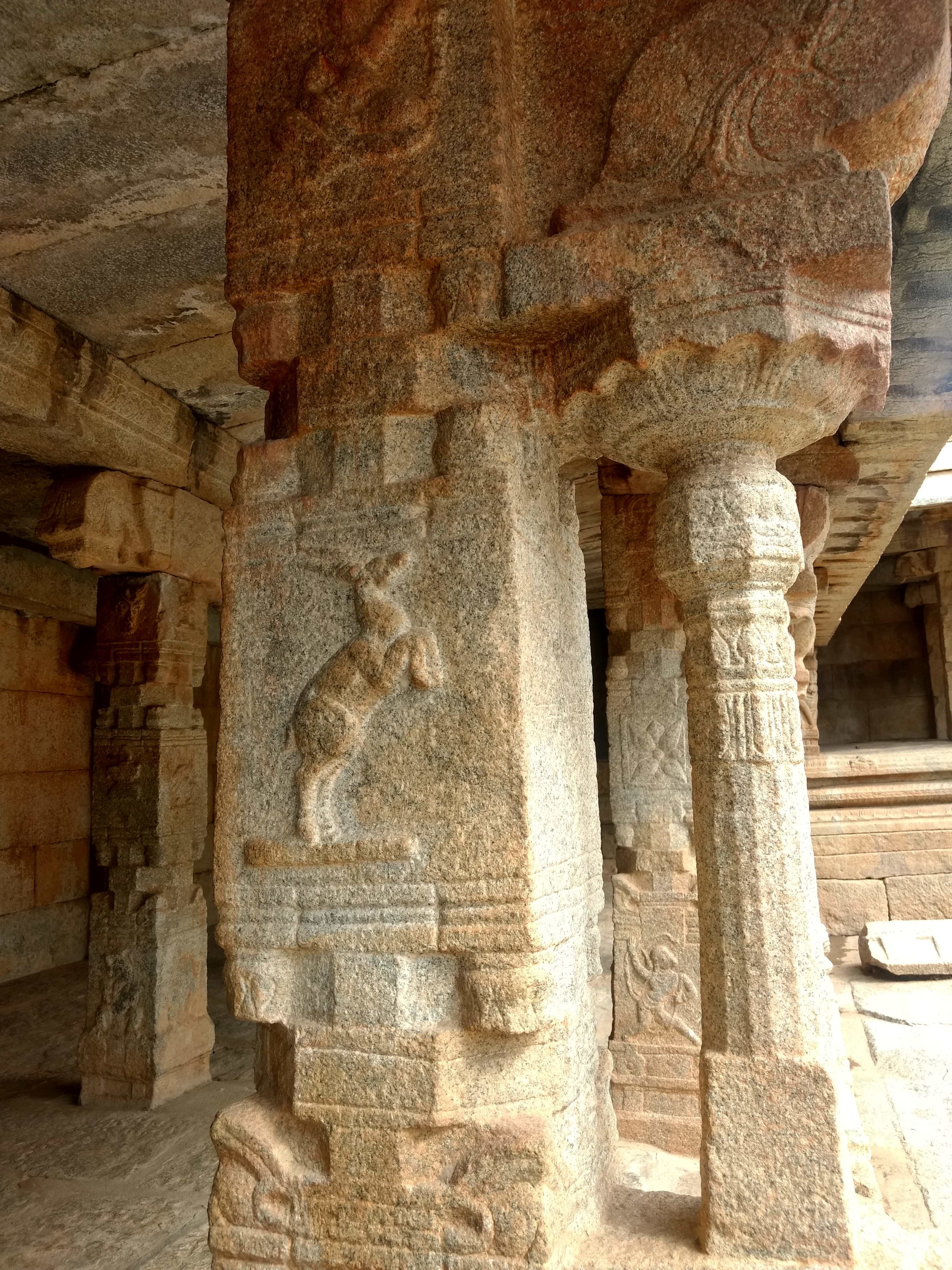 Antilope cervicapra carving in Lepakshi temple, India